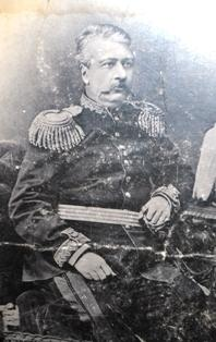 Sherip Khimshiashvili was the governor of Adjara during the Ottoman rule.